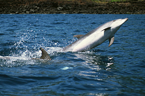 Bottlenose Dolphin (Tursiops truncatus) jumping